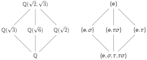 A quasi-copy of the file "Lattice diagram of Q adjoin the positive square roots of 2 and 3, its subfields, and Galois groups" for the use in . Letters in the diagram changed to suit the main text.